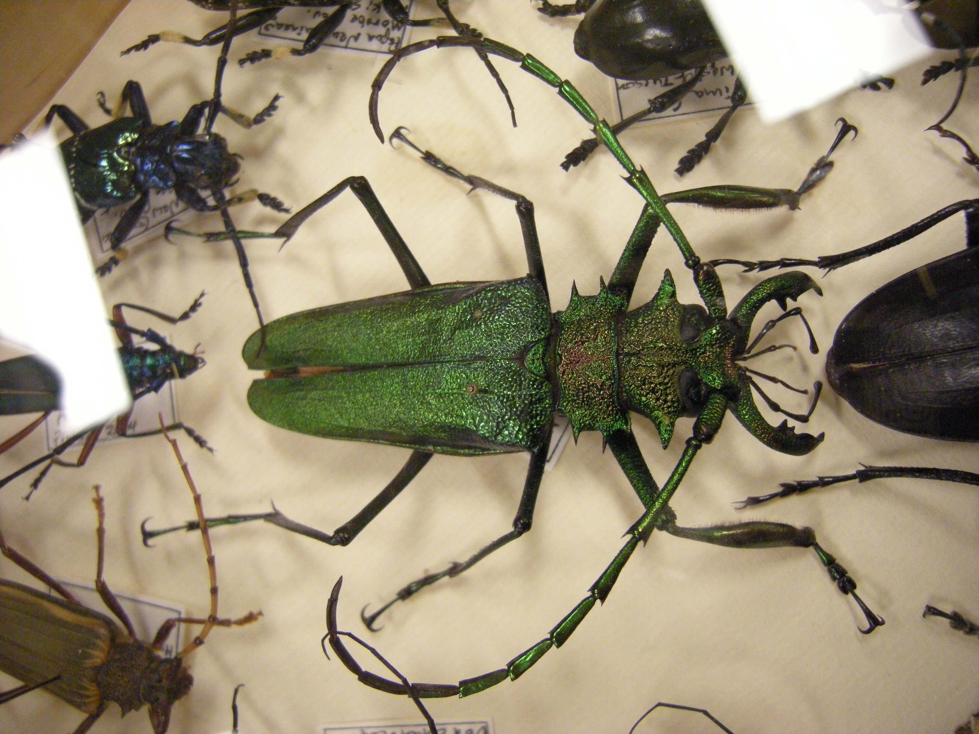 Psalidognathus superbus Fries, 1833 Cerambycidae. Part of Don Ehlen's "Insect Safari" collection.